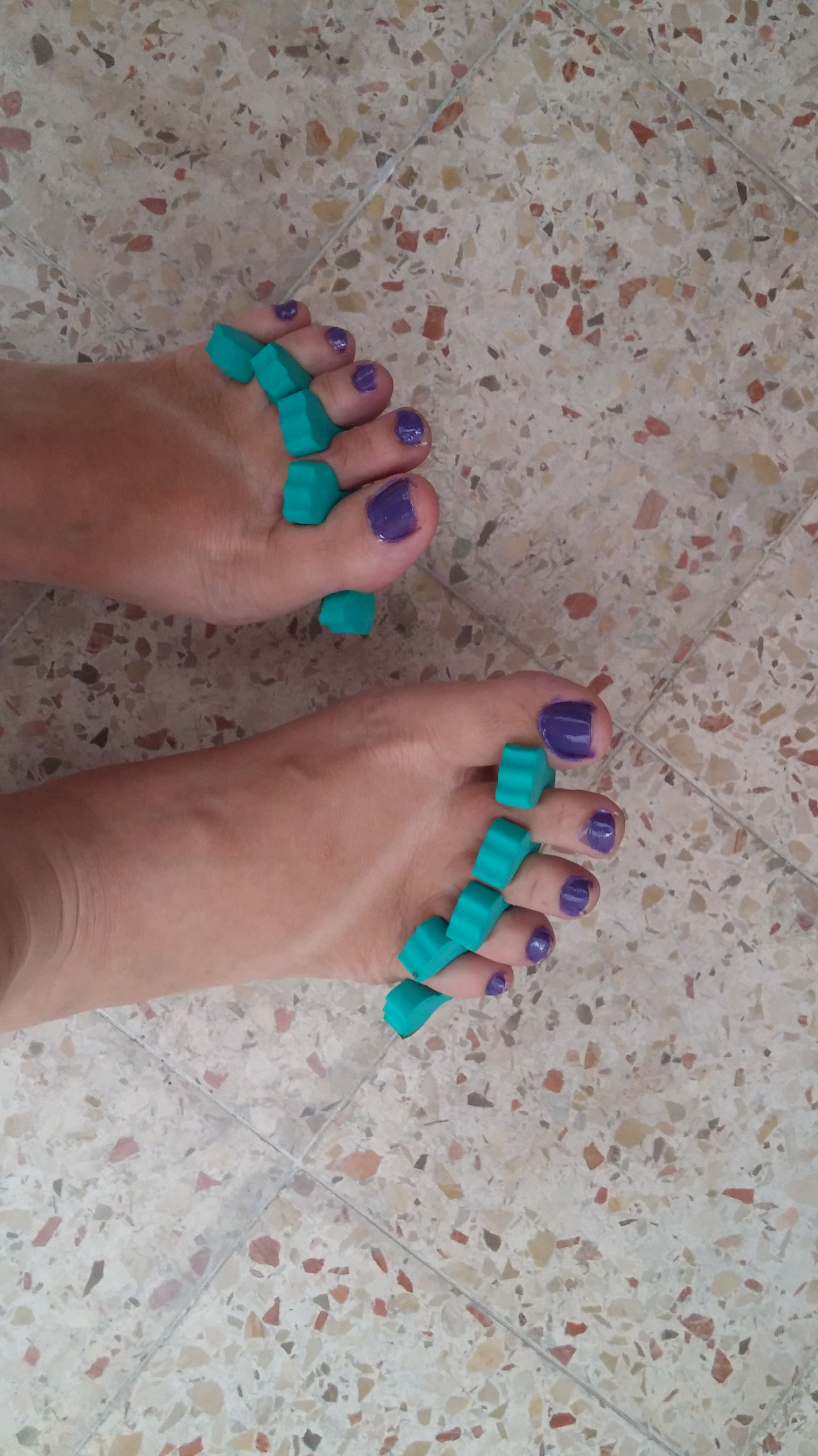 Feet on floor